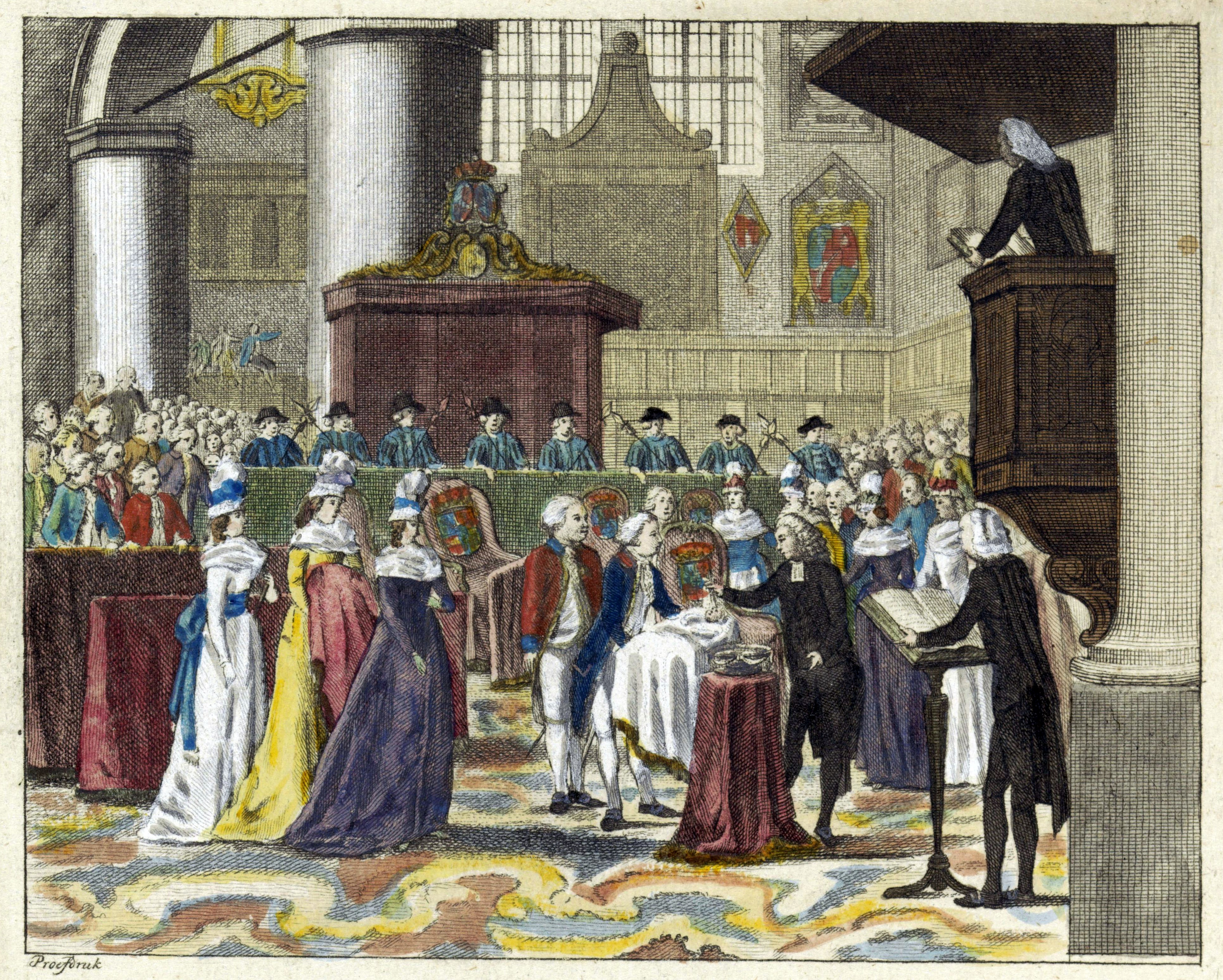 Baptism of Prince William Frederick George, later King William II of the Netherlands, December 28, 1792. In the Great Church in The Hague.